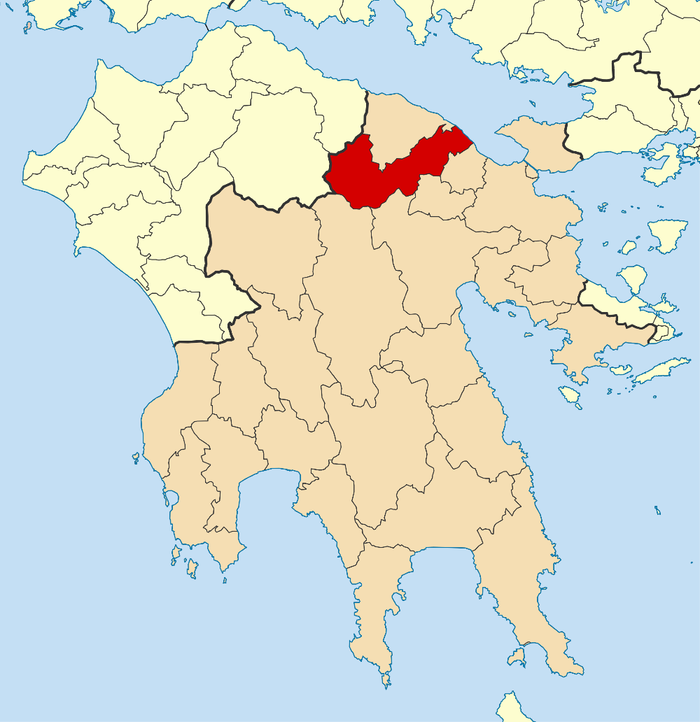 Locator map for Sikyona municipality in Greek region Peloponnese (2011)